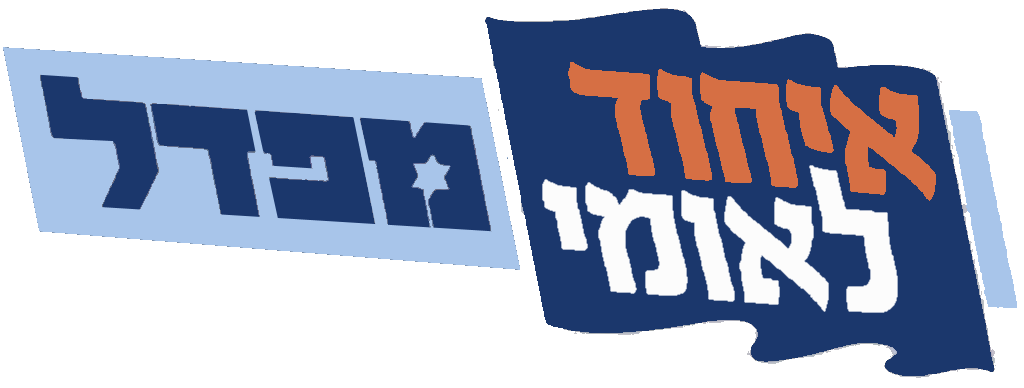 Logo used by the joint list of the National Union and the National Religious Party (Mafdal) in the 200d Israeli Election.